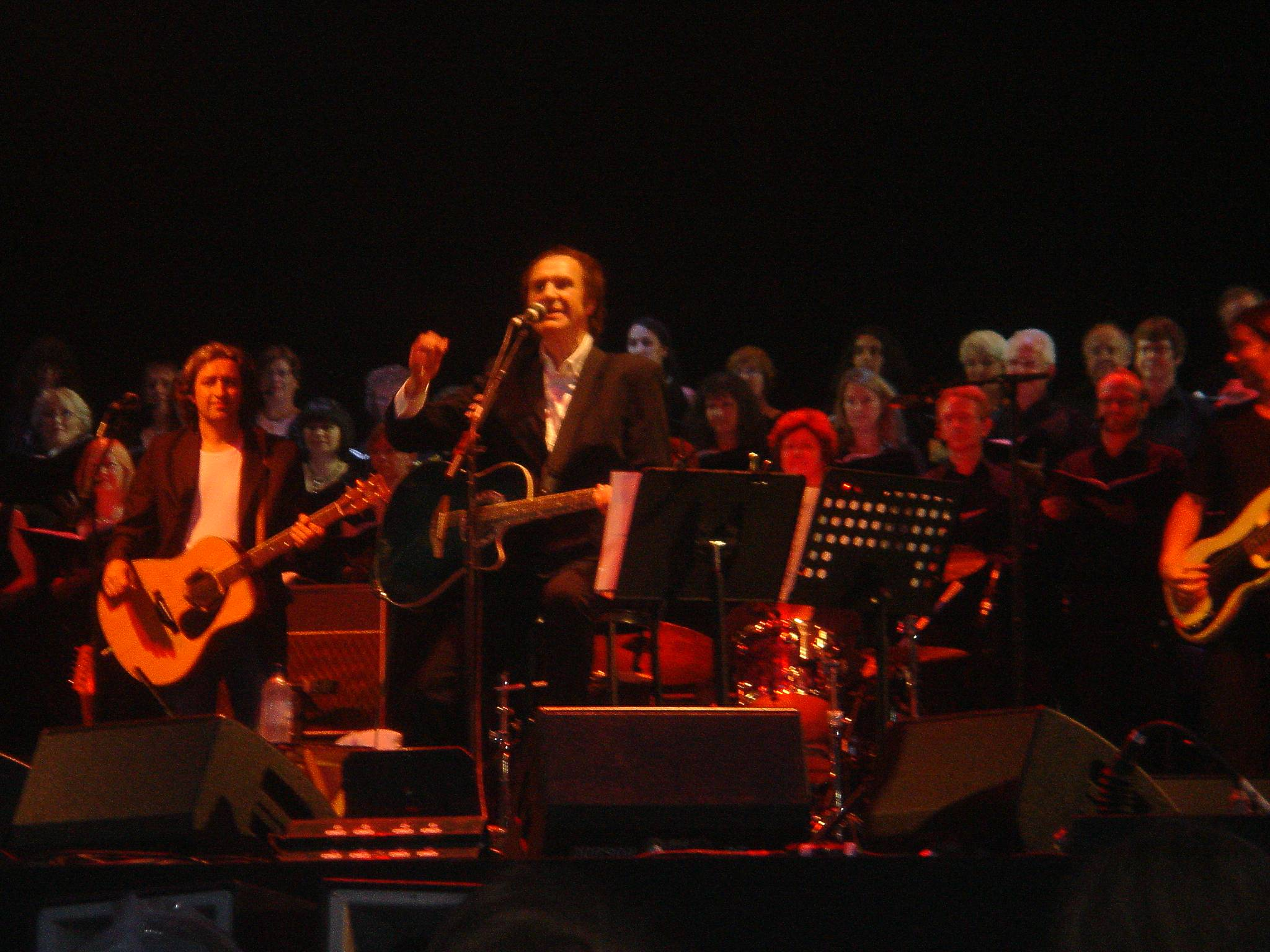 Ray Davies with the Crouch End Festival Chorus appearing at Kenwood House, London on 27 June 2009